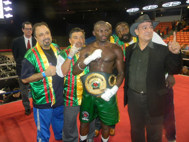 Newly crowned IBO International middleweight champion [Osumanu Adama (center) with his manager Wasfi Tolaymat in the ring at UIC Pavilion in Chicago, December 2010.